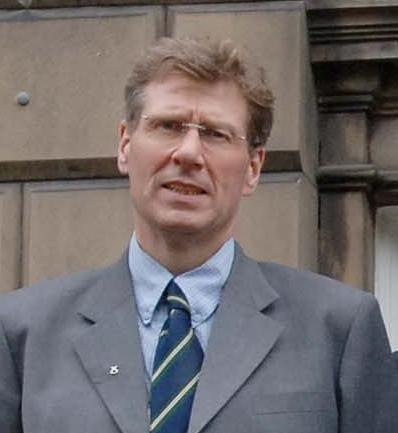 Cabinet Secretary for Justice Kenny MacAskill